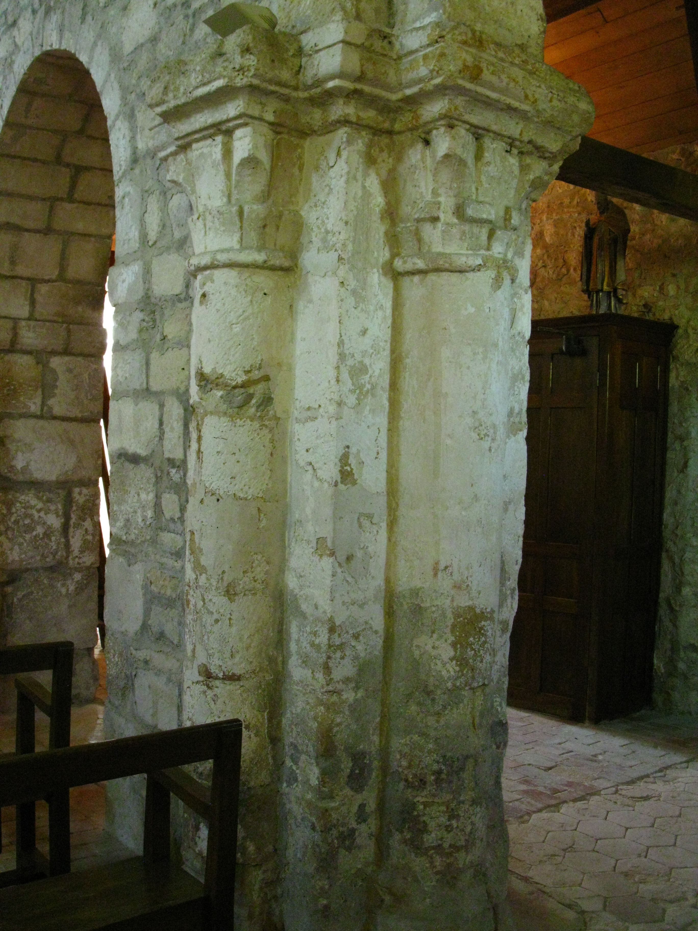 Pillar of the Saint-Médard church, in Romigny (France, 51)